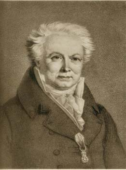 Portrait of Friedrich Ludwig von Sckell, 1750-1823, Landscape architect, Germany.